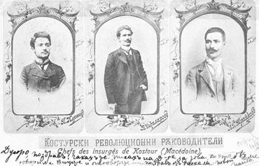 Pando Klyashev, Vasil Chakalarov, Lazar Poptraykov, signed by Klyashev 16 November 1904.